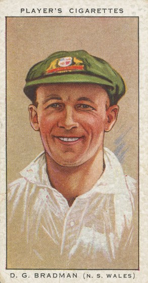 Portrait of cricketer, D. G. Bradman (New South Wales), 1934. Cigarette card distributed during the Australian cricket team's tour of England in 1934. The National Library of Australia